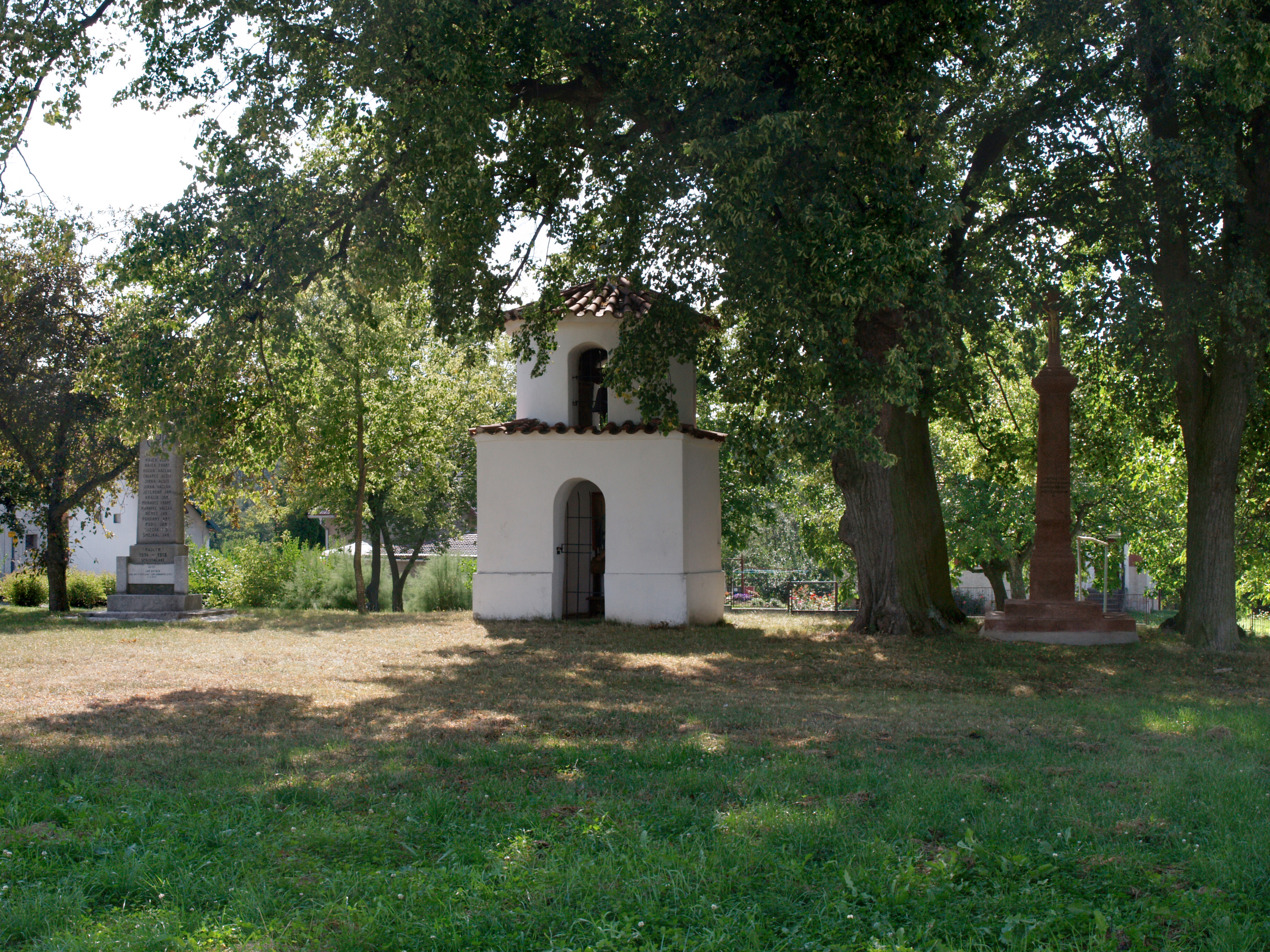 Village square/green in Svatbín (part of town Kostelec nad Černými lesy, Czech Republic)